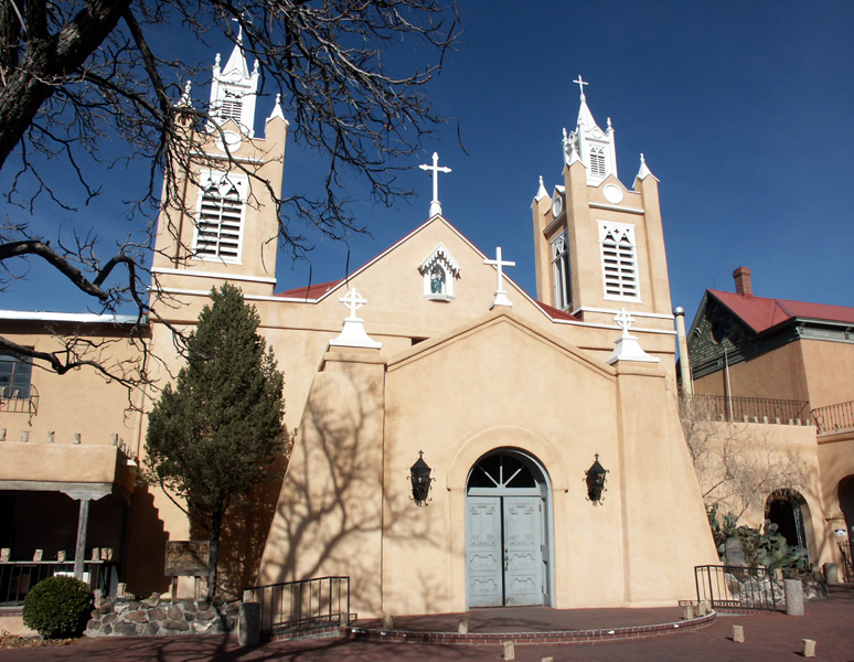 San Felipe Church on Old Town plaza, Albuquerque, New Mexico, USA. Photo by User:camerafiend.